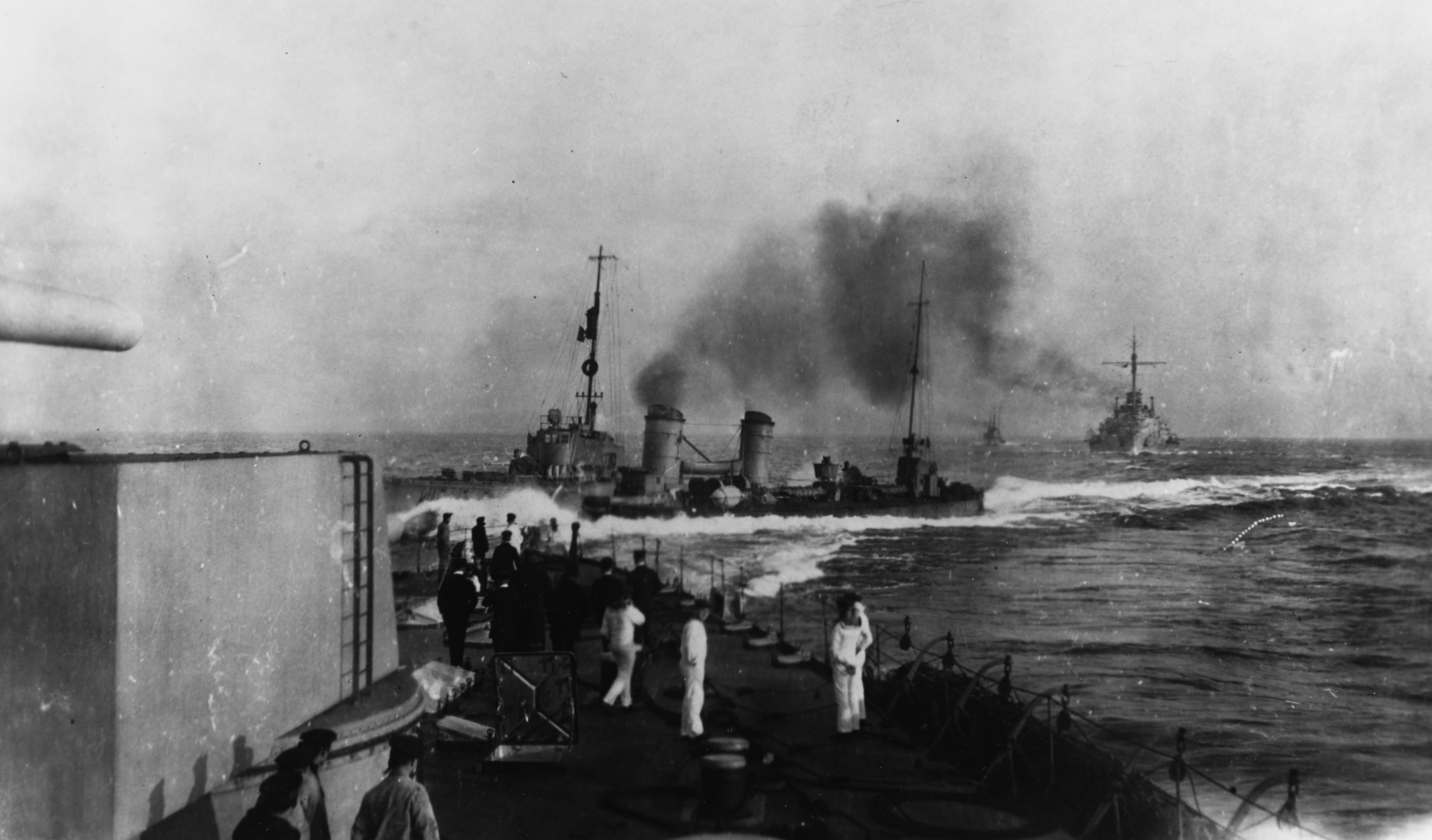 A German torpedoboat cutting through the battle line during the First World War. The ship is decribed as a "G-37 Class Destroyer (G-37 to 42)", which would be a Großes Torpedoboot 1913-class ship. Probably G 41 The ship in the background seems to be a Derfflinger-class batttlecruiser, before addition ot the tripod mast forward.